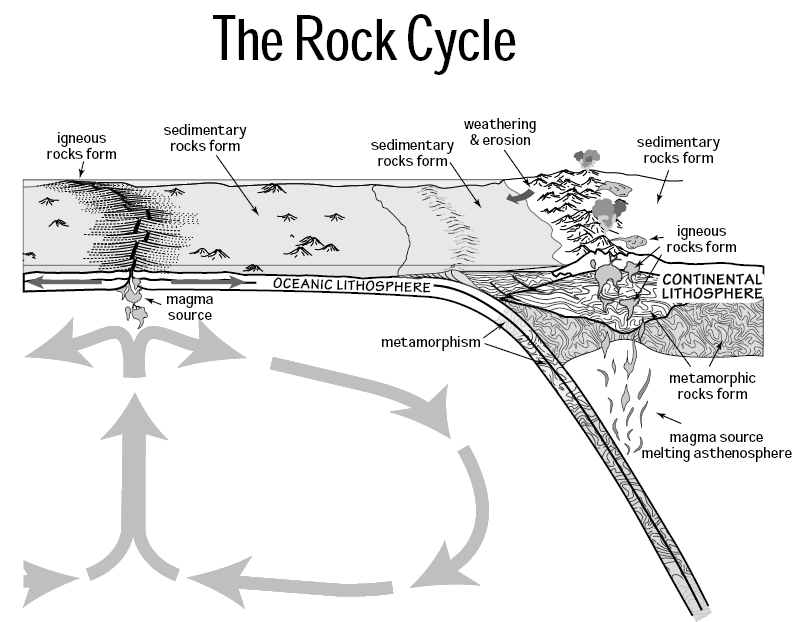 Diagram describing the rock cycle, from [1] (archived here)